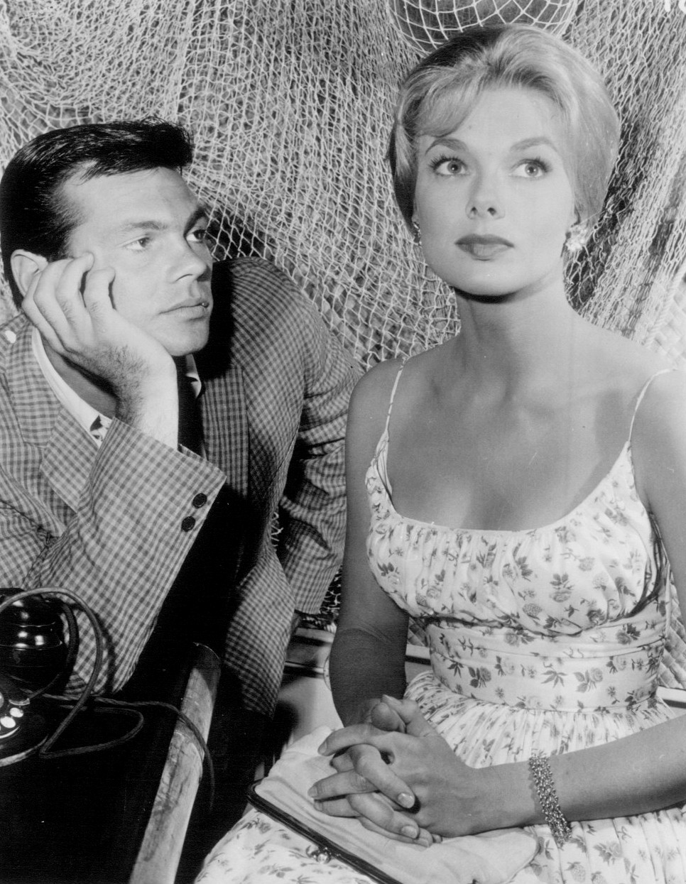 Photo of Gary Lockwood and Leslie Parrish from the television program Follow the Sun.